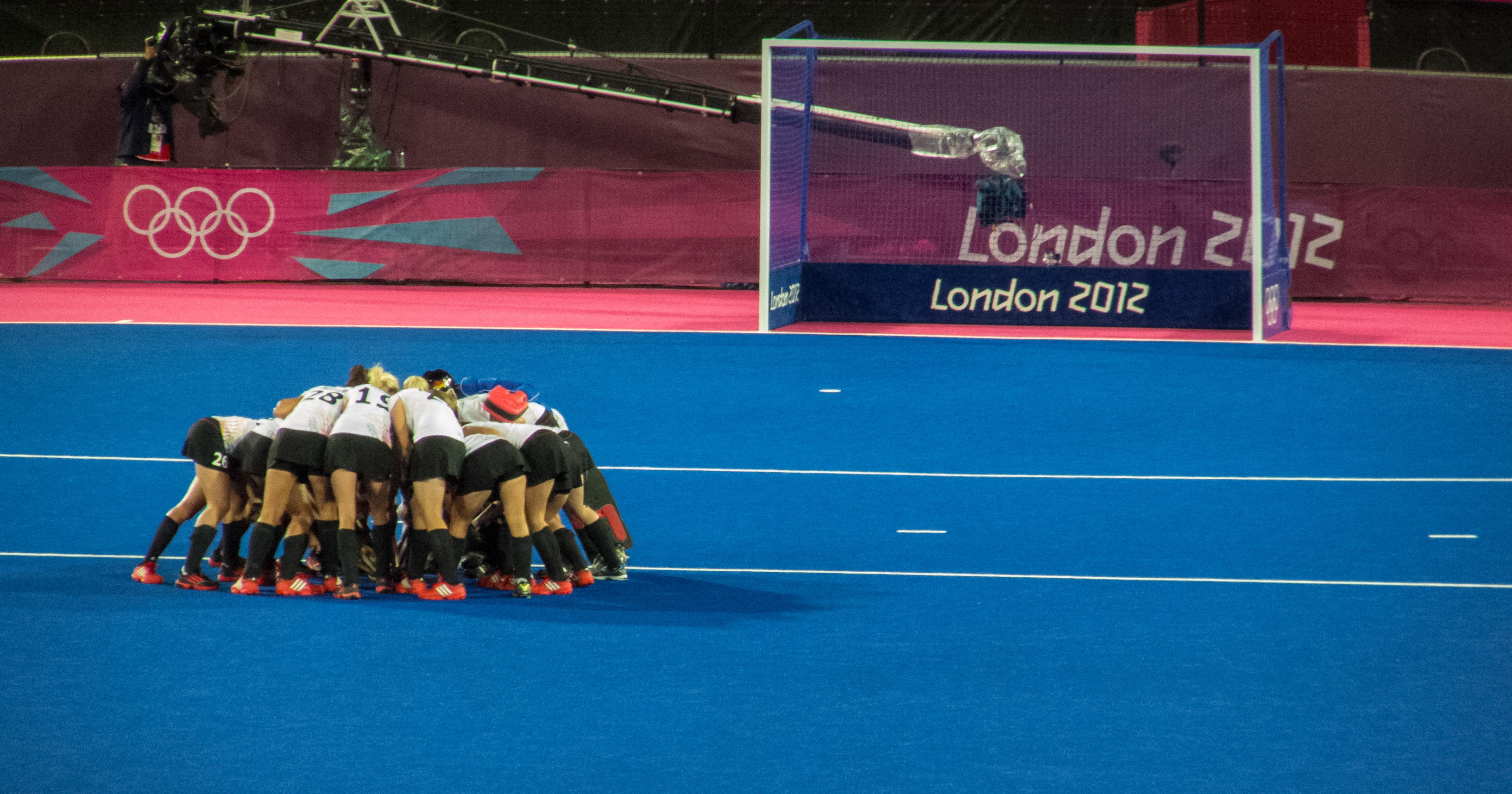 before facing Argentina